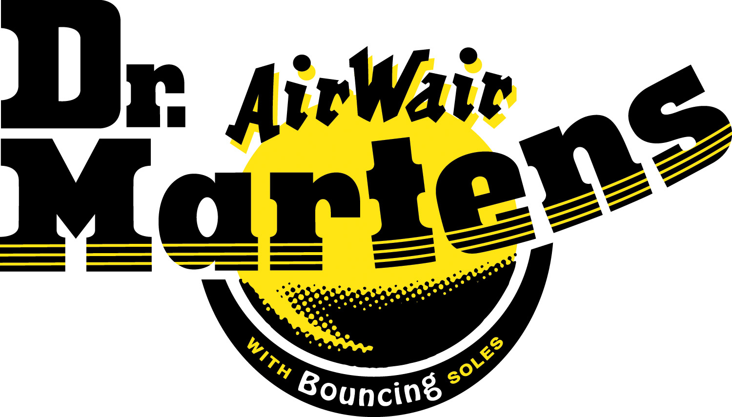 Dr. Martens Logo